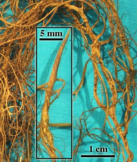 Close up picture of a specimen of wila (a lichen) that is exceptionally high in vulpinic acid, displaying characteristic pseudocyphellae. This specimen could either be classified as Bryoria tortuosa, or a morphotype of Bryoria fremontii.